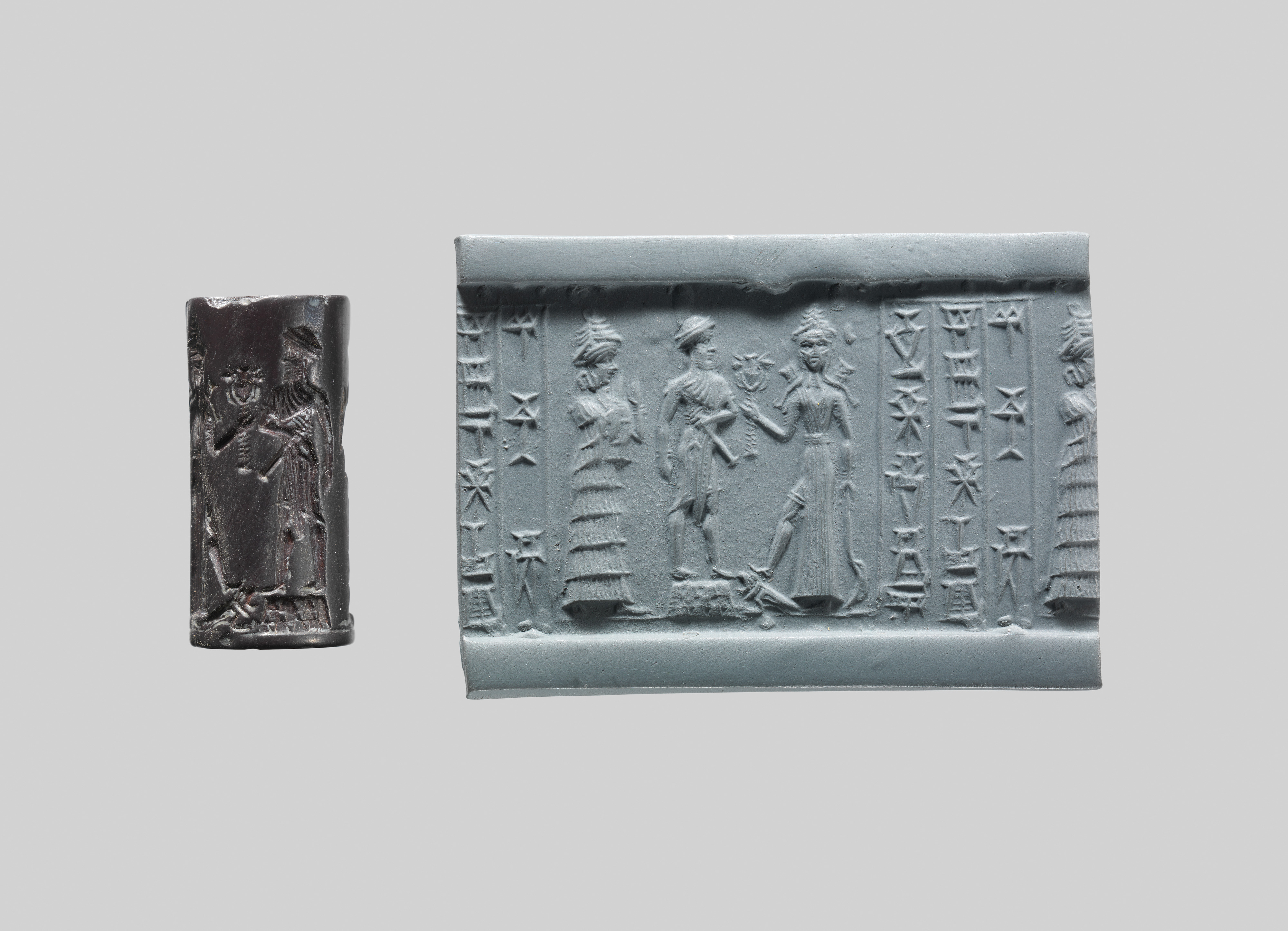 Babylonian; Cylinder seal; Stone-Cylinder Seals-Inscribed